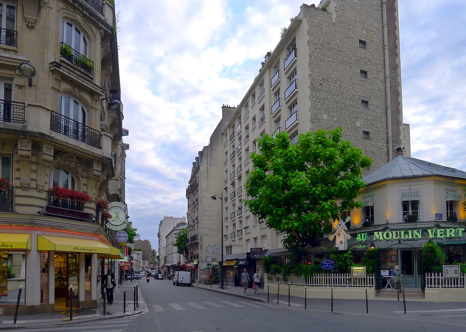 Plantes street - Paris